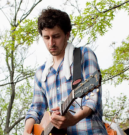 Dave Godowsky performing on a rooftop in Somerville, MA